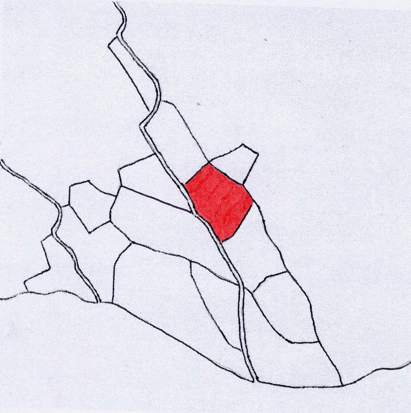 Zarechny microdistrict in Tsentralny City district of Sochi